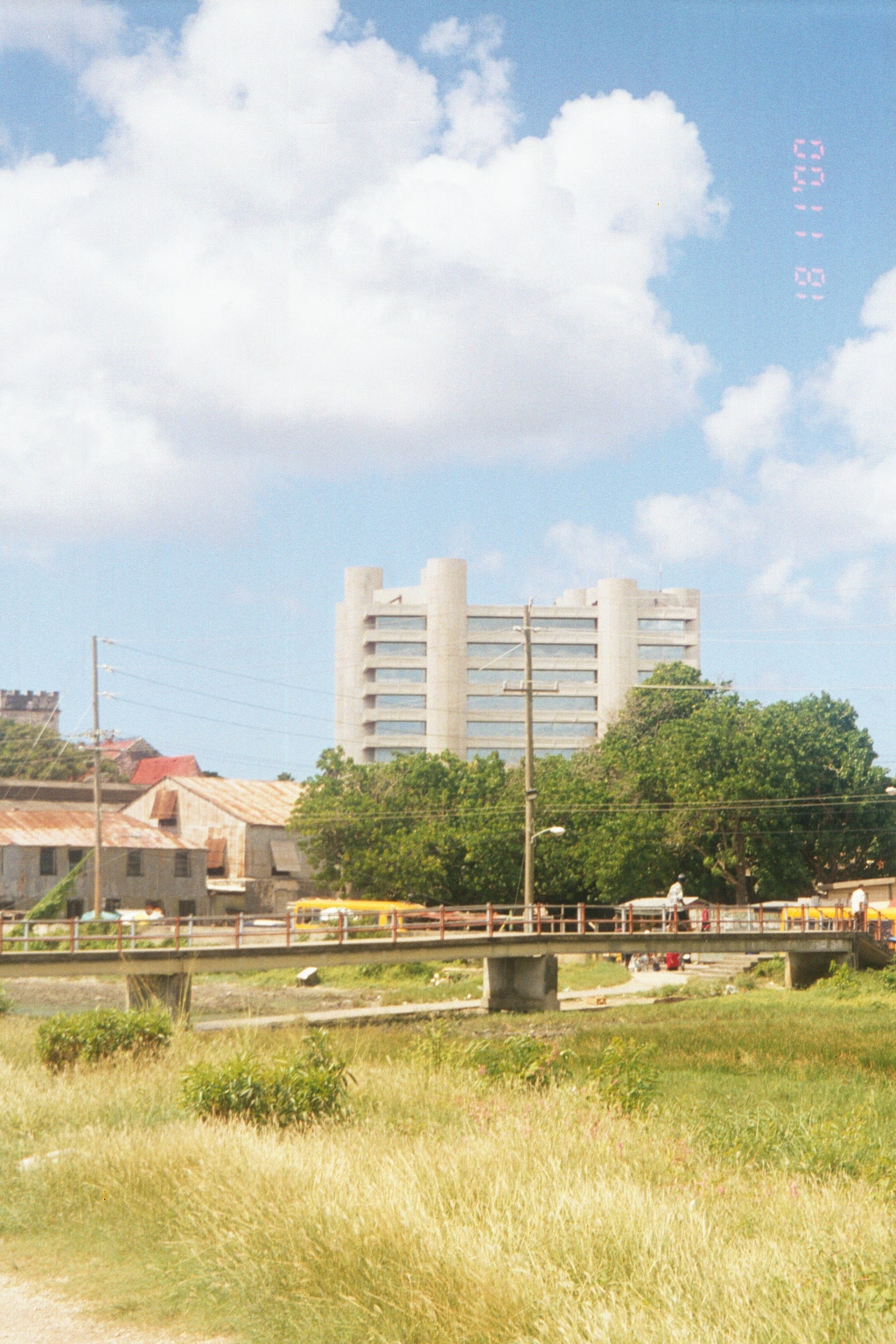 The Tom Adams Financial Center, as seen from Constitution River Road; It is located in the city of Bridgetown. (c.a. November 2000)